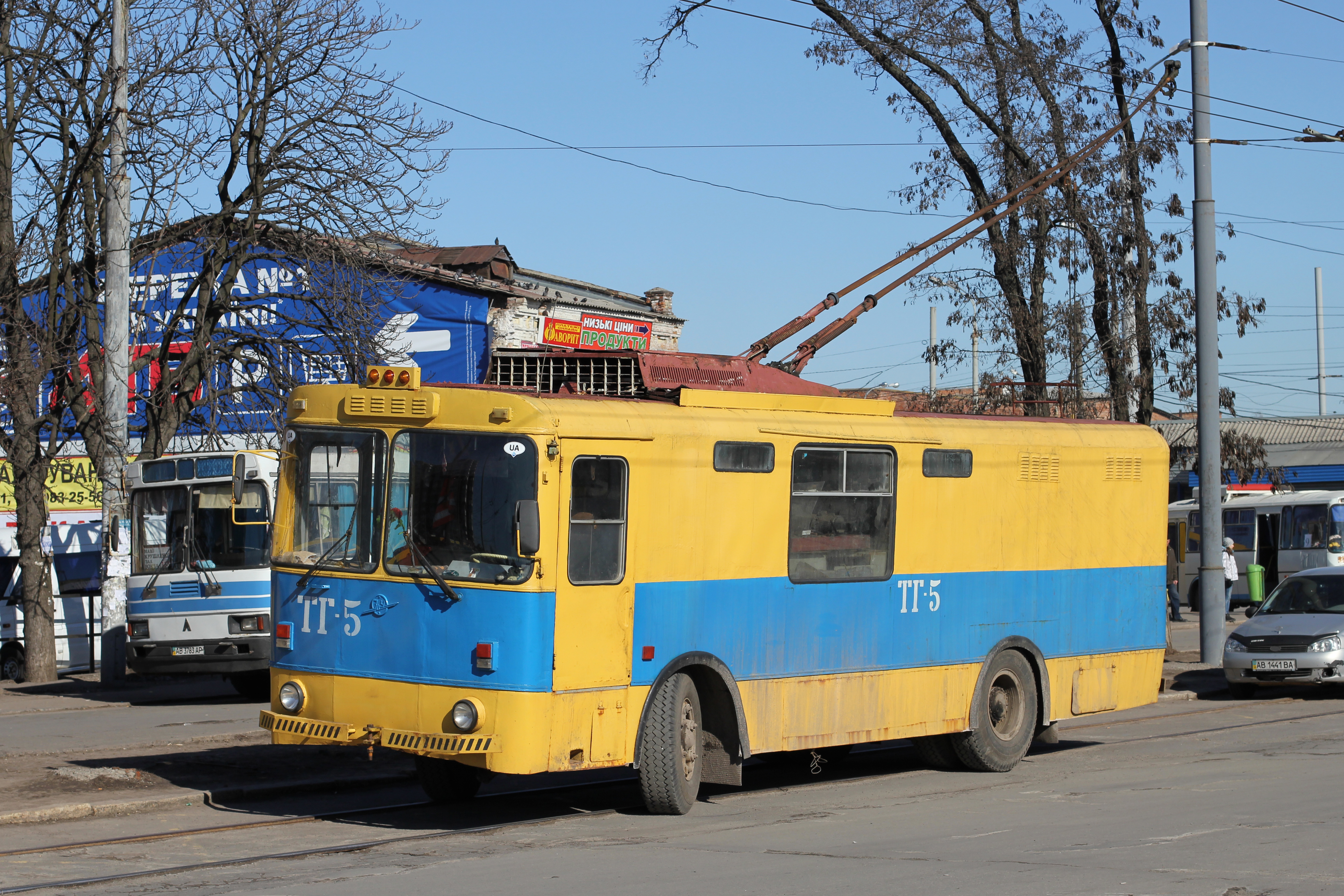 The freight trolley TG-5 (used for technical service). Ukraine, Vinnitsa.